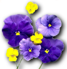 A number of pansy flowers in various colors.